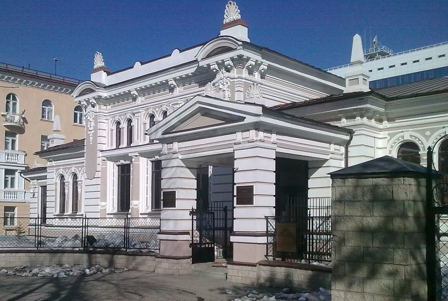 Museum of Archeology and Etnography in Ufa, Russia